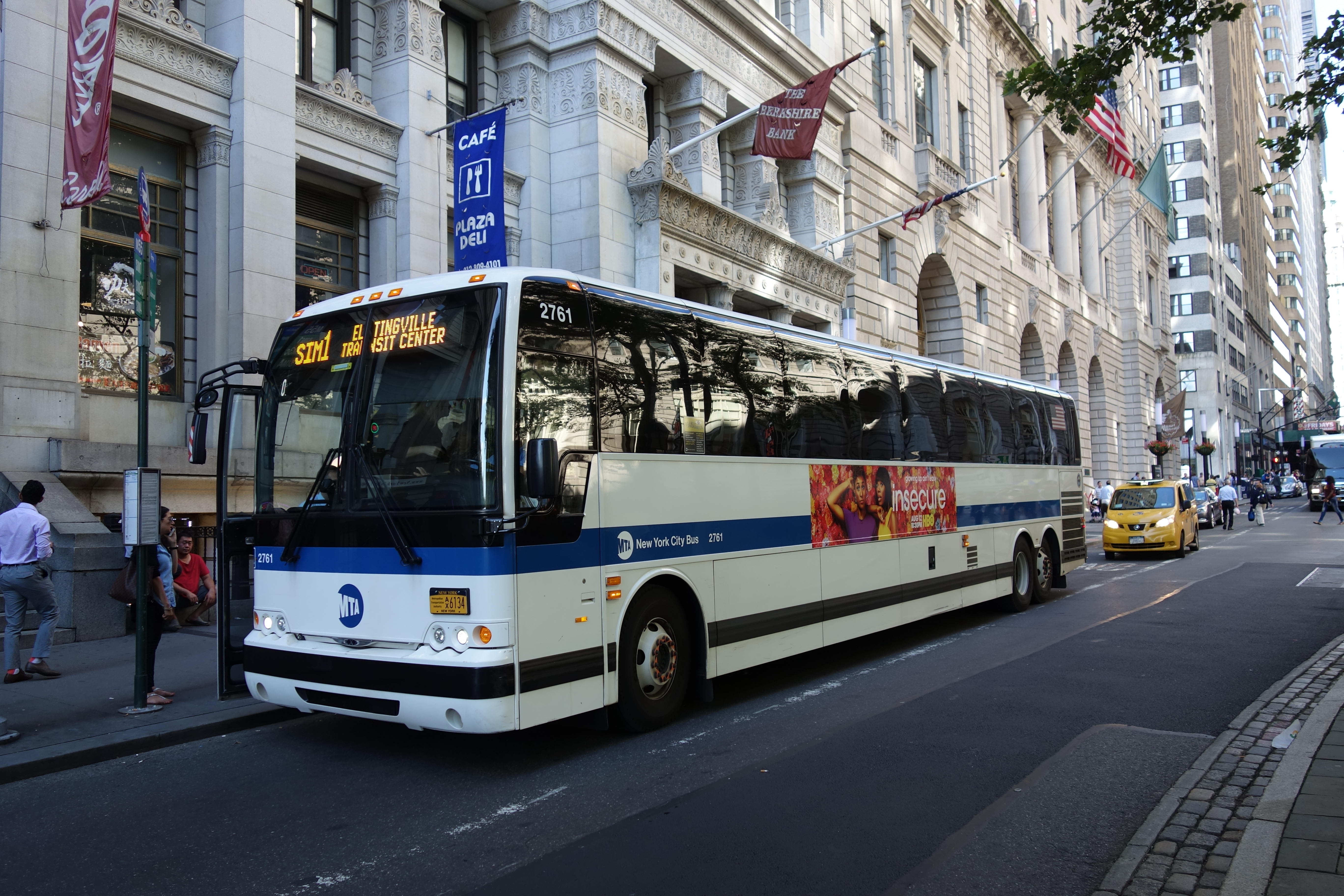 An Eltingville Transit Center-bound SIM1 express bus picking up passengers at the south end of Broadway between Morris Street and Battery Place in Bowling Green, Financial District, Manhattan. The former X1 route has recently been converted into the SIM1, SIM1C and SIM10 routes. The SIM1 runs between Lower Manahttan and Eltingville during peak hours. On another note, there appears to be something wrong with this bus's route sign.